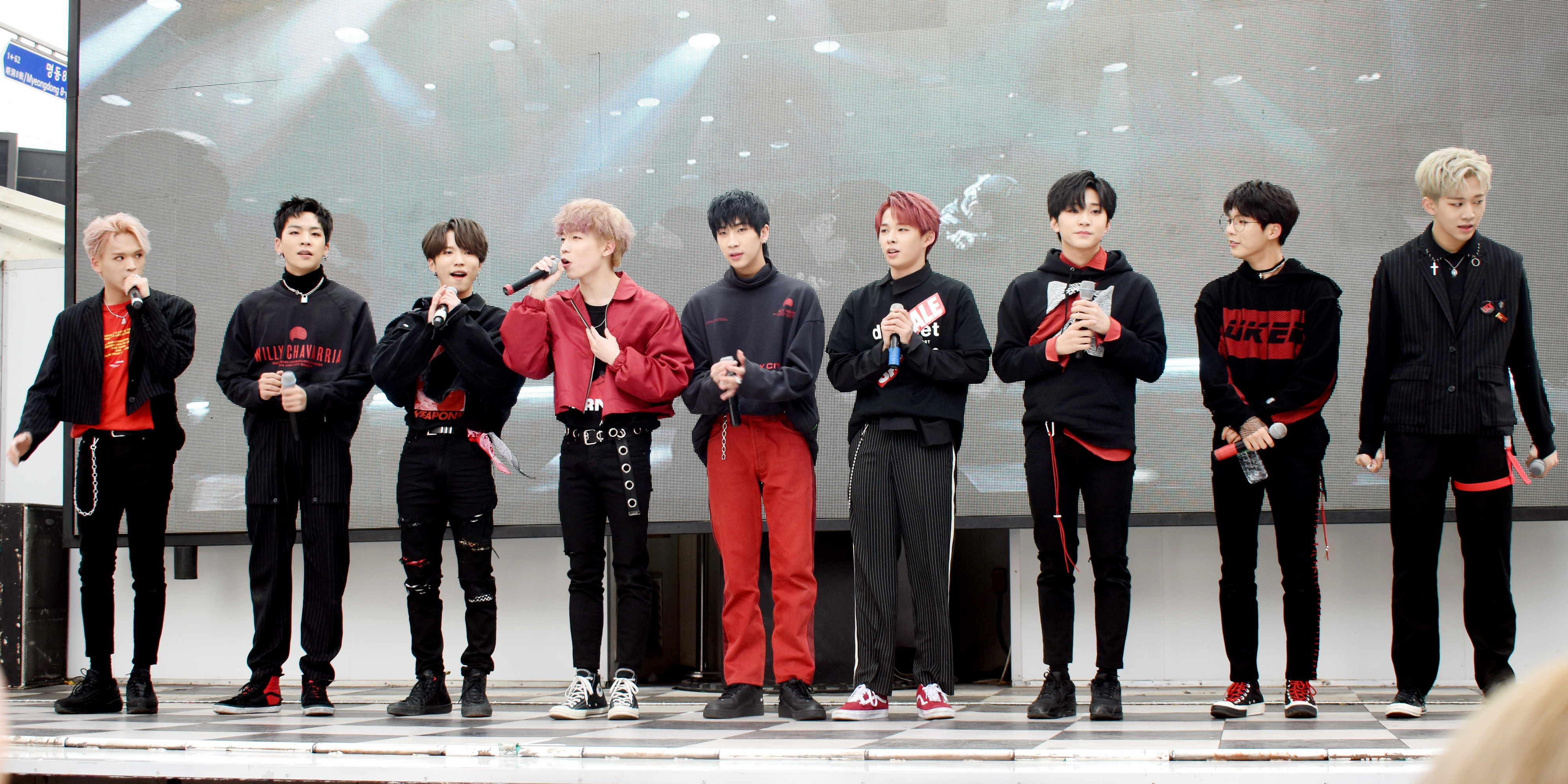 D-Crunch busking in Myeongdong on November 18, 2018